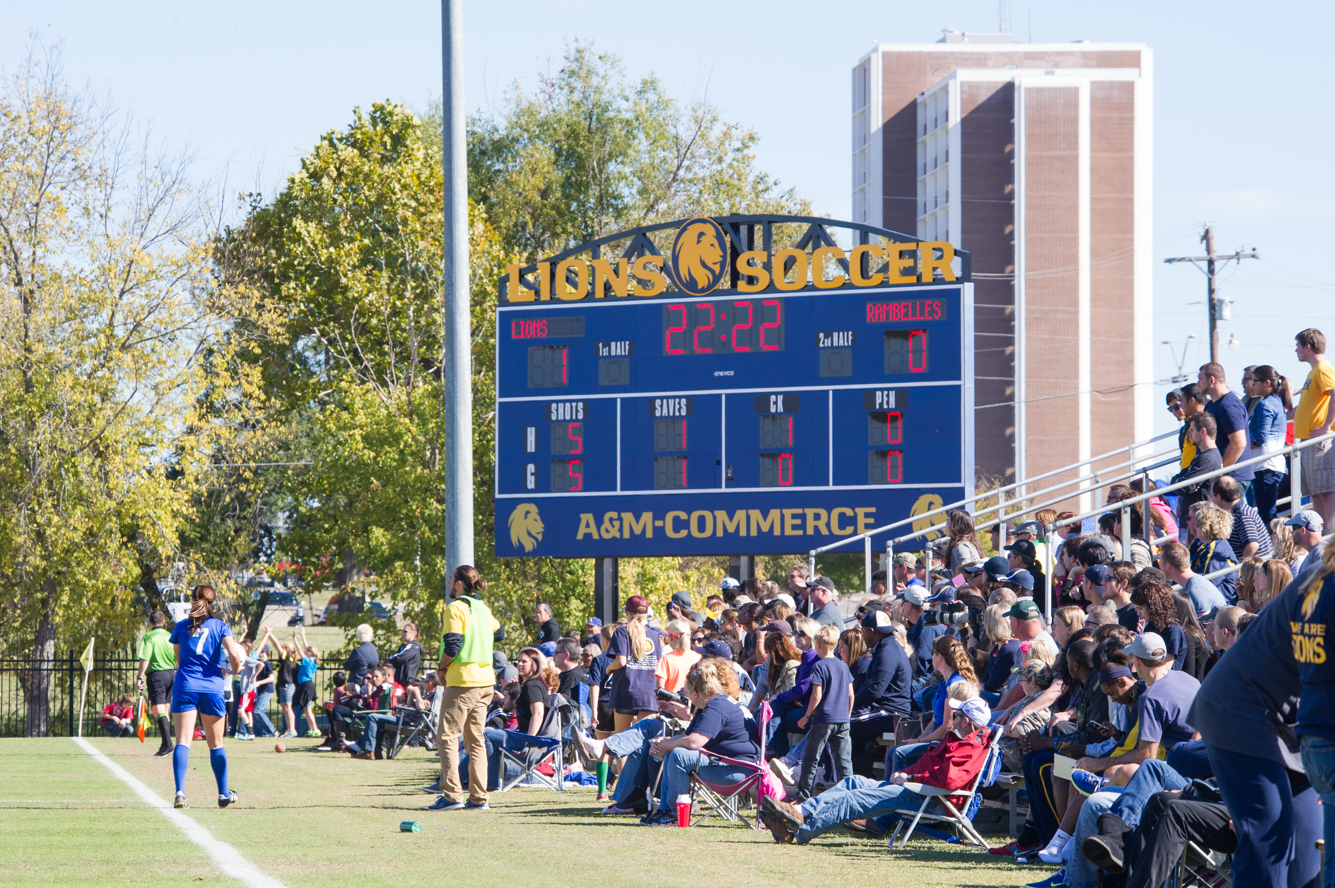 Athletics-Soccer vs ASU-6015.jpg 2014–15 Texas A&M–Commerce Lions women's soccer team